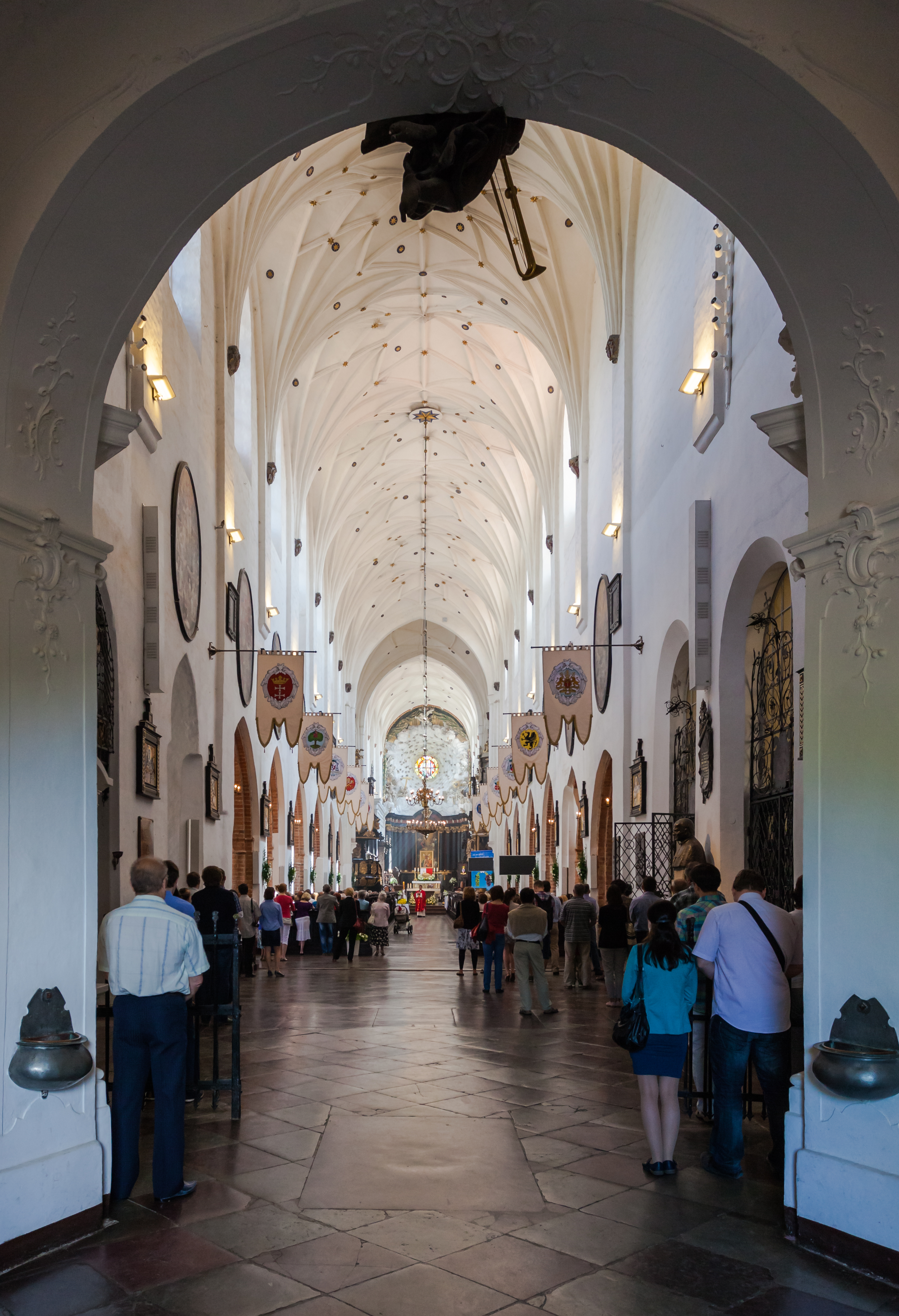 Oliwa Cathedral, Gdansk, Poland